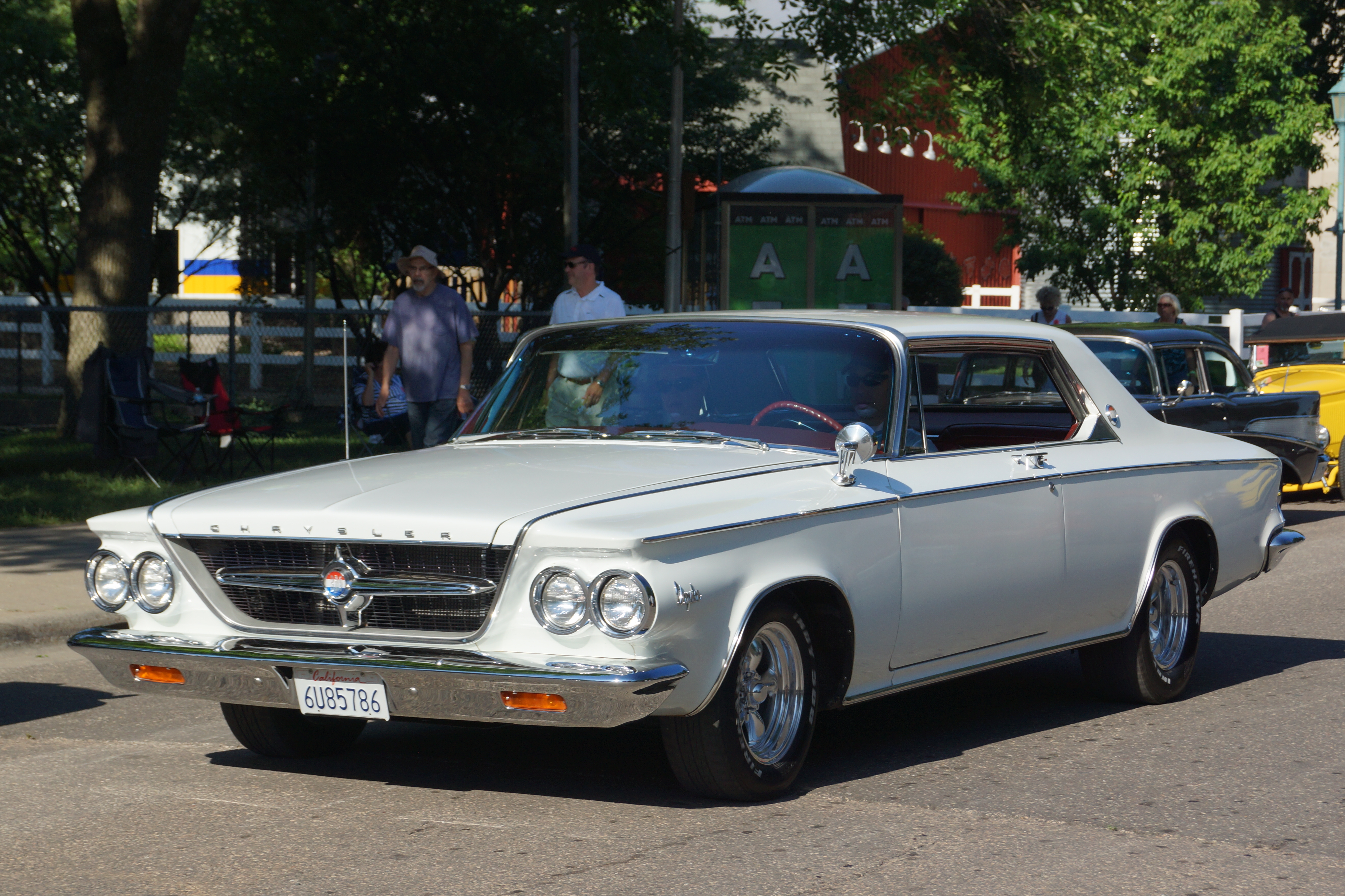 Minnesota Street Rod Association (MSRA) “BACK TO THE 50′s” 43nd Annual Car Show June 17-19, 2016 State Fairgrounds St. Paul, Minnesota Click here for more car pictures at my Flickr site. Also on Tumblr